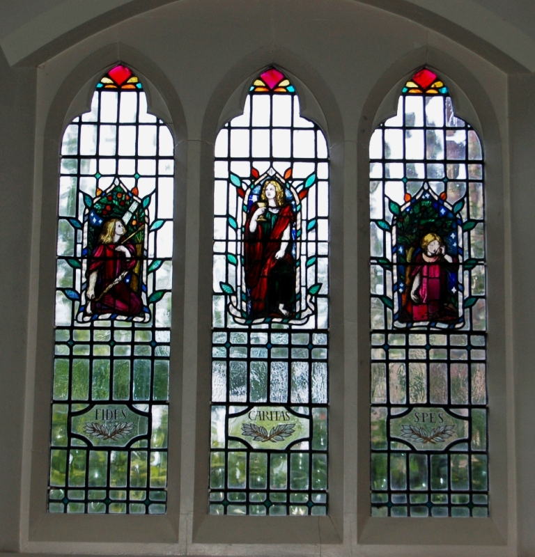 Stained Glass Window by Reginald Hallward in the chapel of Brentwood School in Essex.